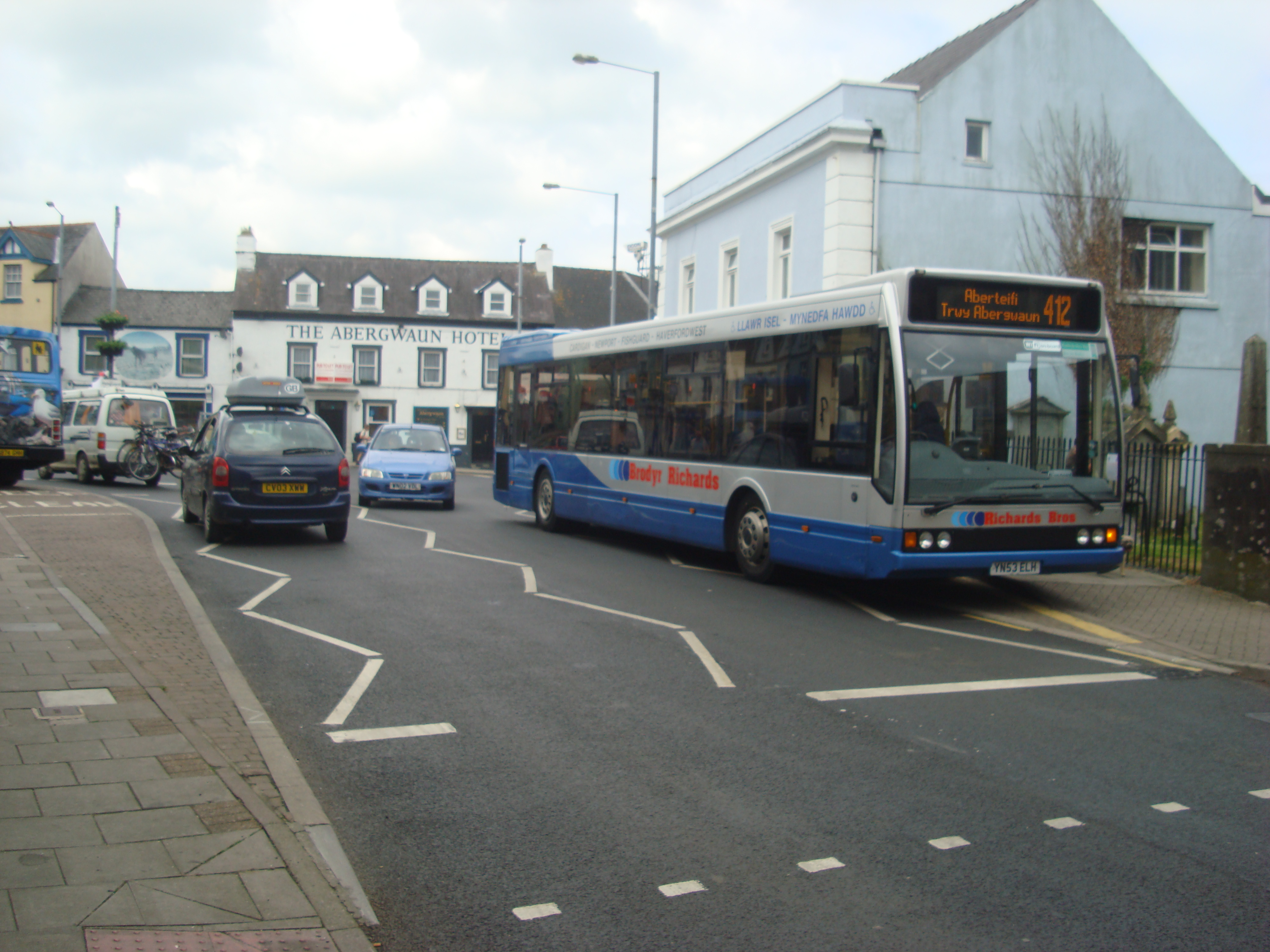 Richards Bros Optare Excel bus at the 'Fishguard Roundabout' bus stop near Fishguard town hall (library). The bus is on the 412 service to Cardigan, for which it carries route branding.